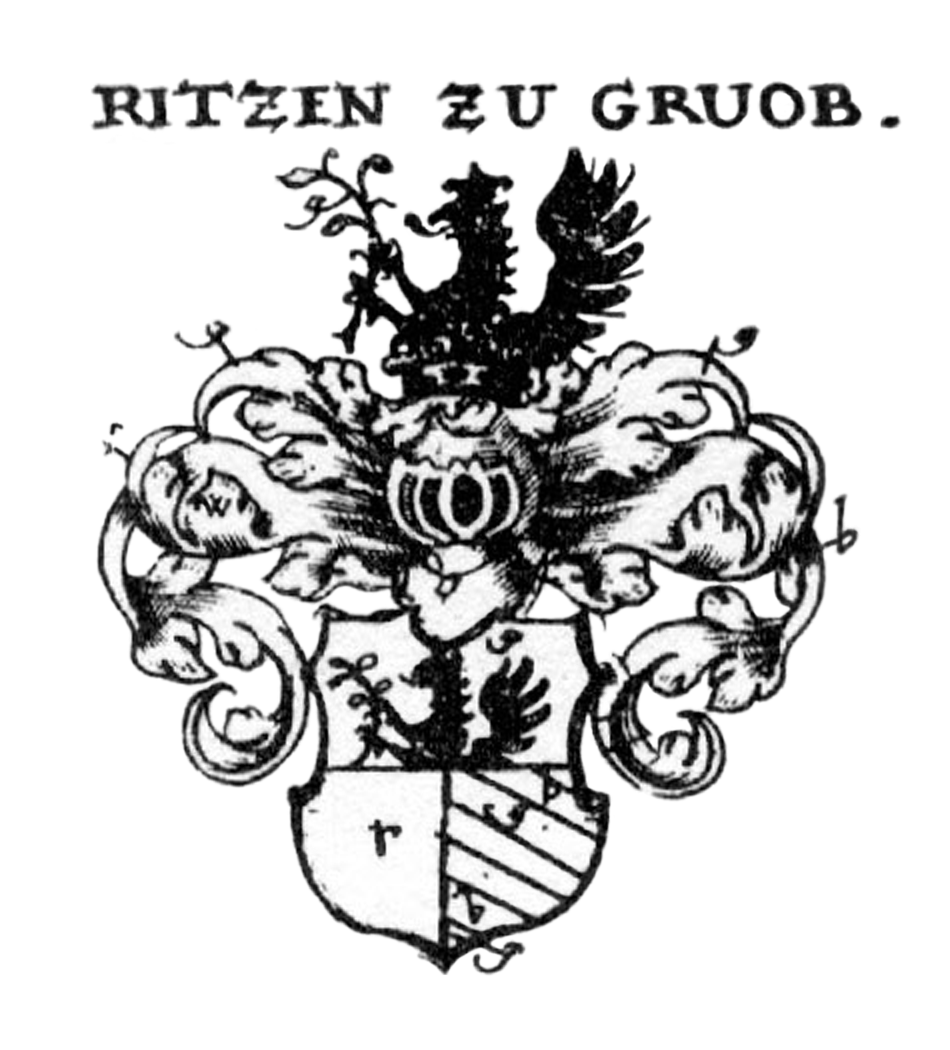 Coat of arms of Ritz zu Grub